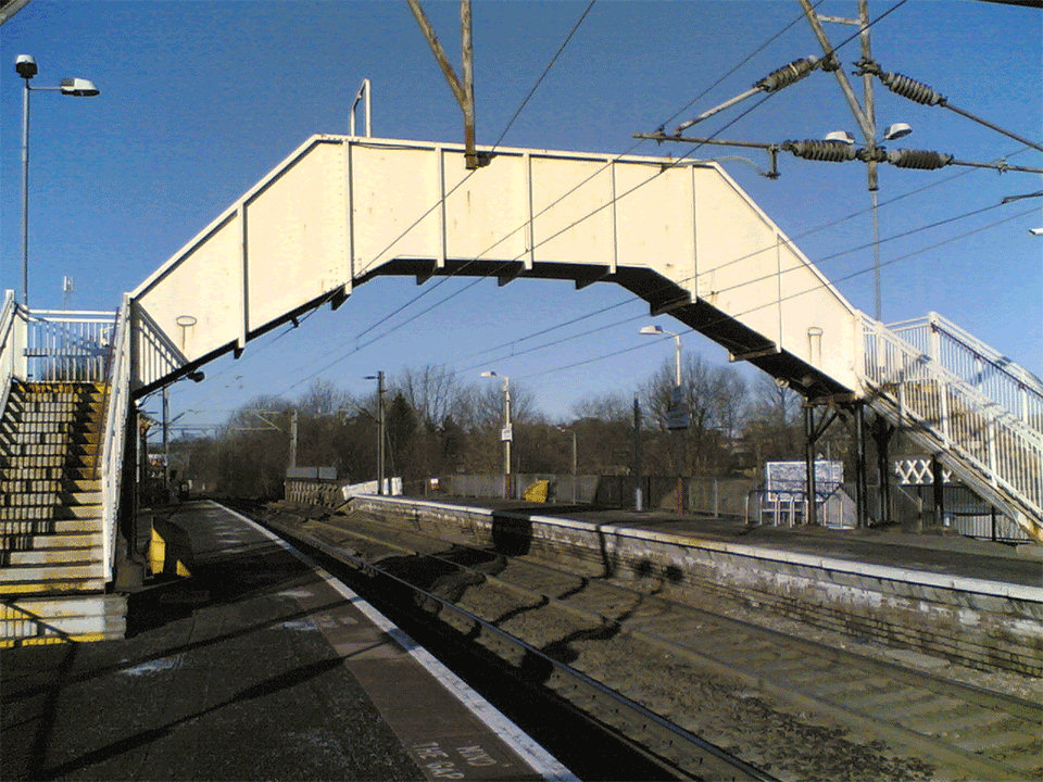 Jordanhill railway station, Glasgow: The bridge between platforms. Picture taken by Erath on March 2, 2006